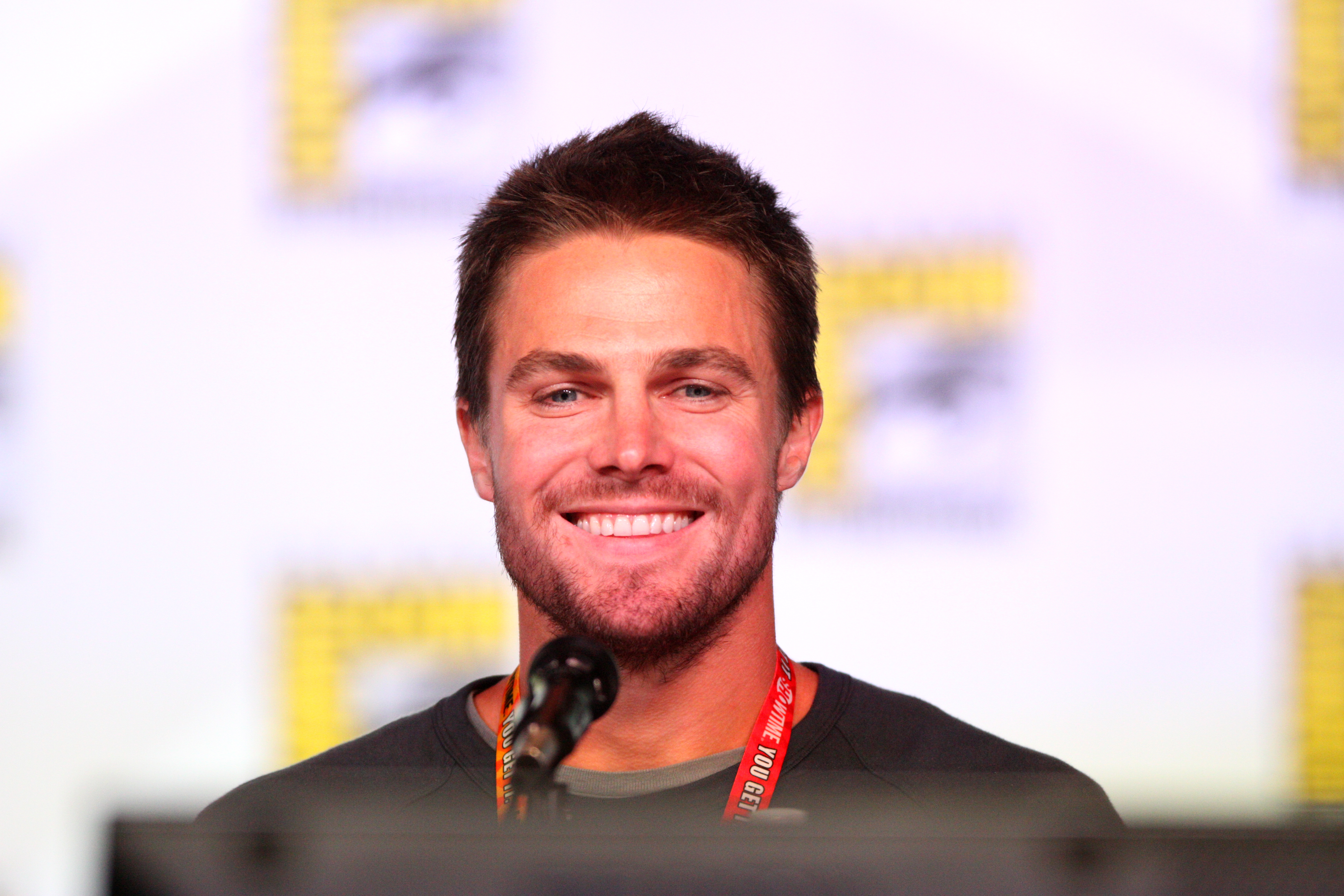 Stephen Amell speaking at the 2012 San Diego Comic-Con International in San Diego, California.